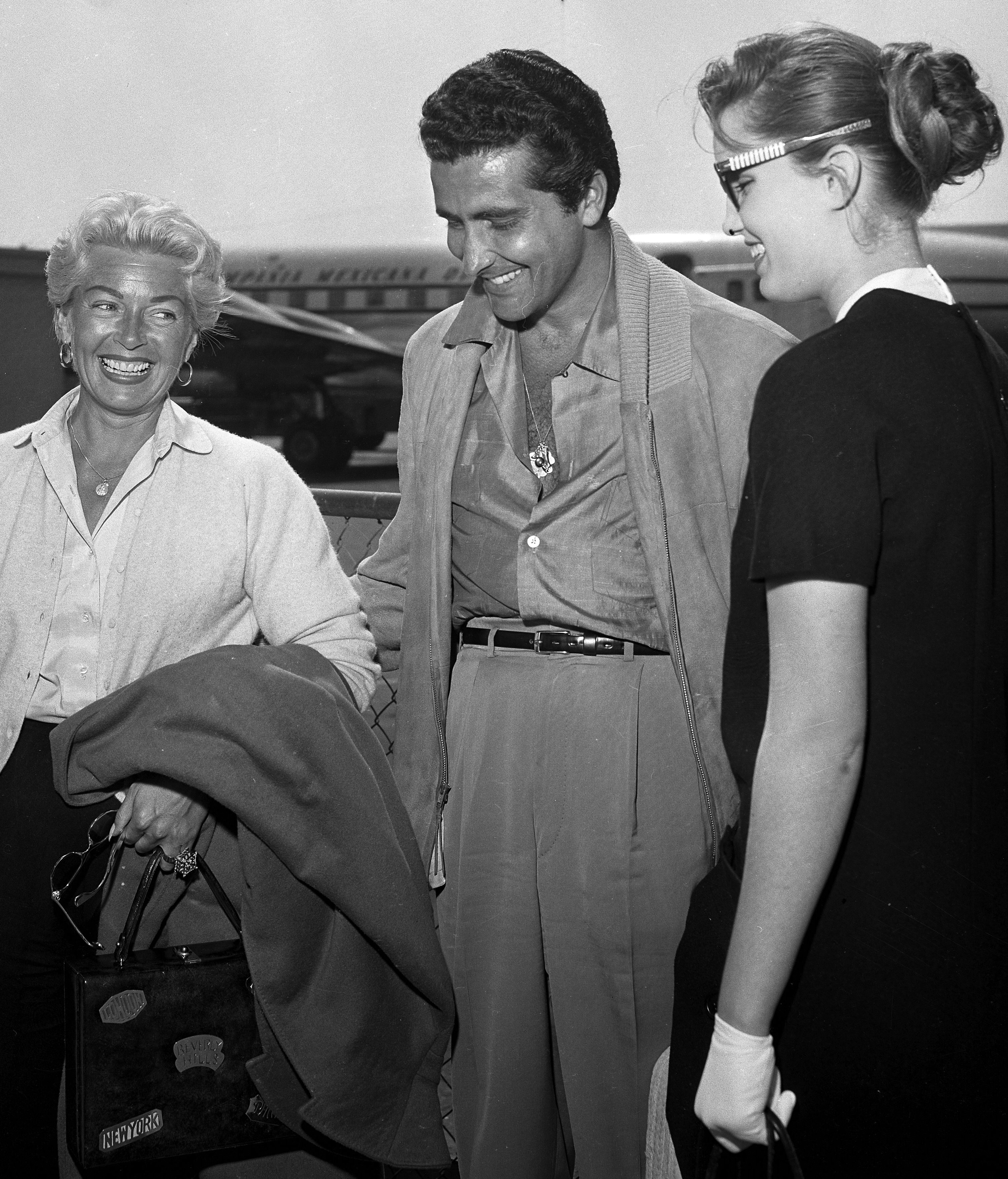 Lana Turner, Johnny Stompanato, and Cheryl Crane arriving at Los Angeles International Airport, March 1958